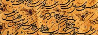 It is a late Qajarid period document, dated 1894. Artist died in Tehran where he lived, at the age of 45, in 1319 on the Iranian calendar. A follower of the style of Darvish, his contemporaries were Mirza Hasan Isfahani (میرزا حسن اصفهانی), Mirza Kuchek Isfahani (میرزا کوچک اصفهانی), and Mohammad Ali Shirazi (محمد علی شیرازی). After his death, the Shekasteh style fell into stagnation until it was revived again later on in the Pahlavi era